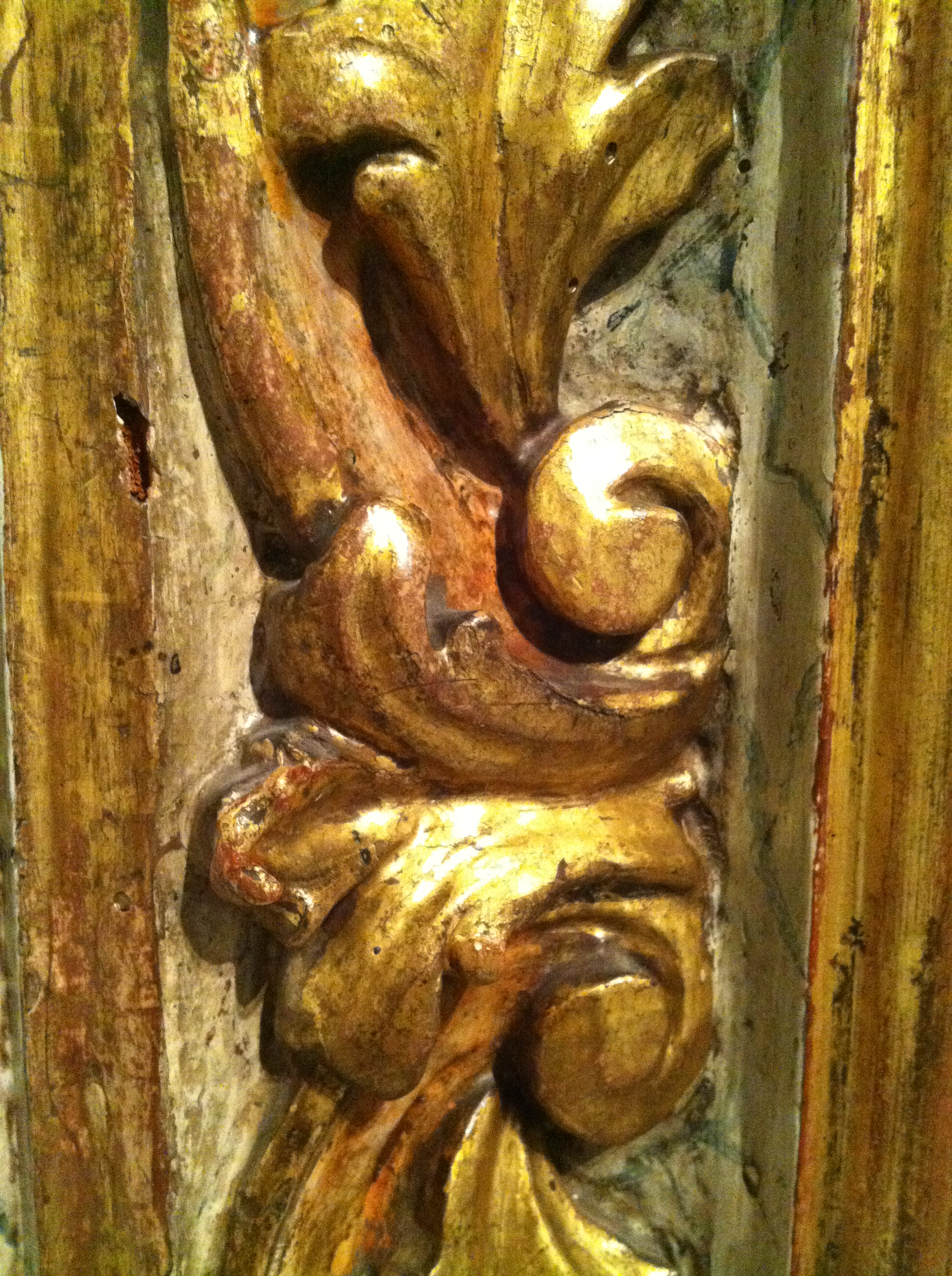 Frame of the Portrait of Senyora Canals by Pablo Picasso, shown at Museu Picasso of Barcelona. 2011